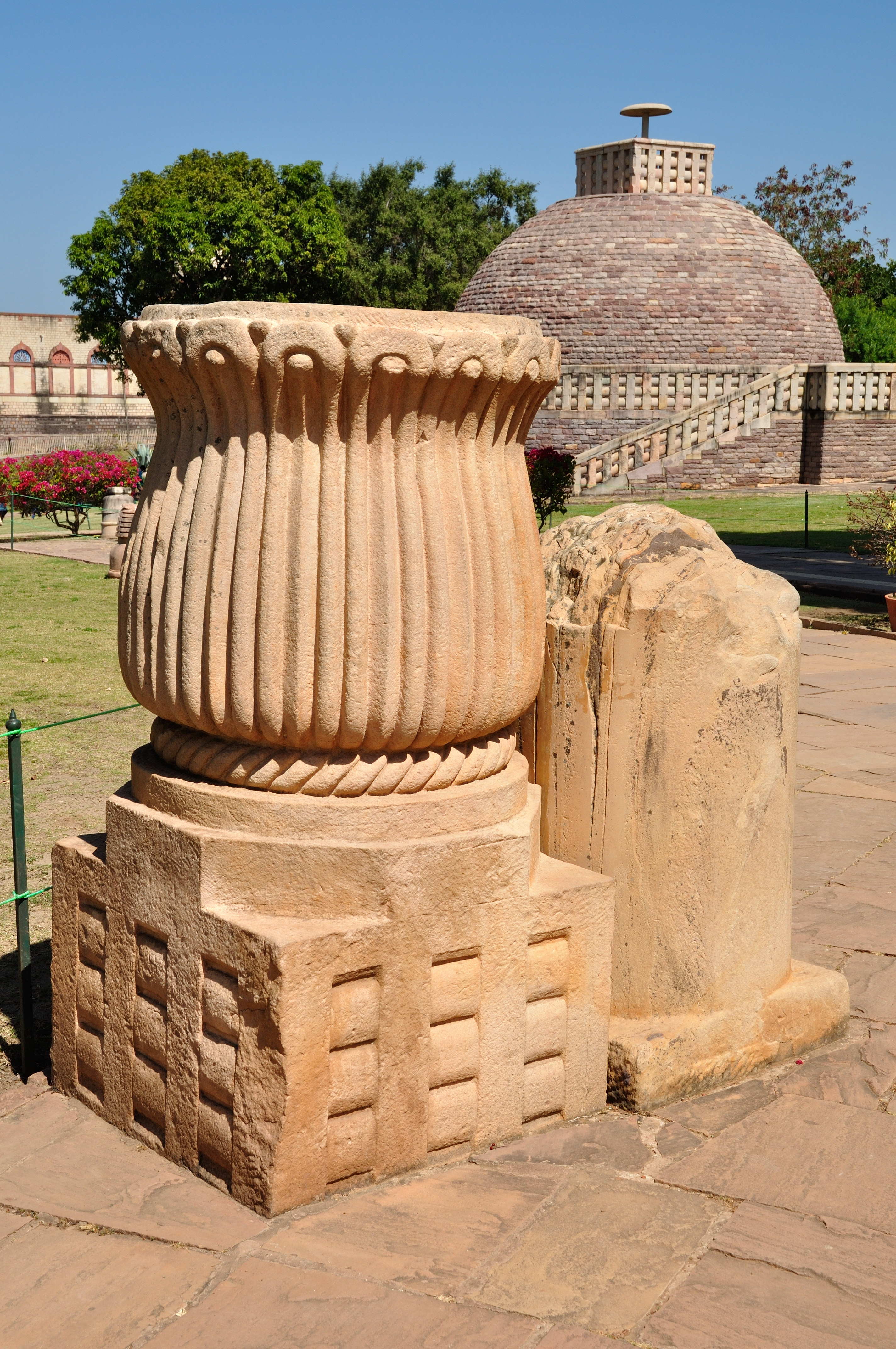 Buddhist monument at the Sanchi Hill, Raisen district of the state of Madhya Pradesh, India.